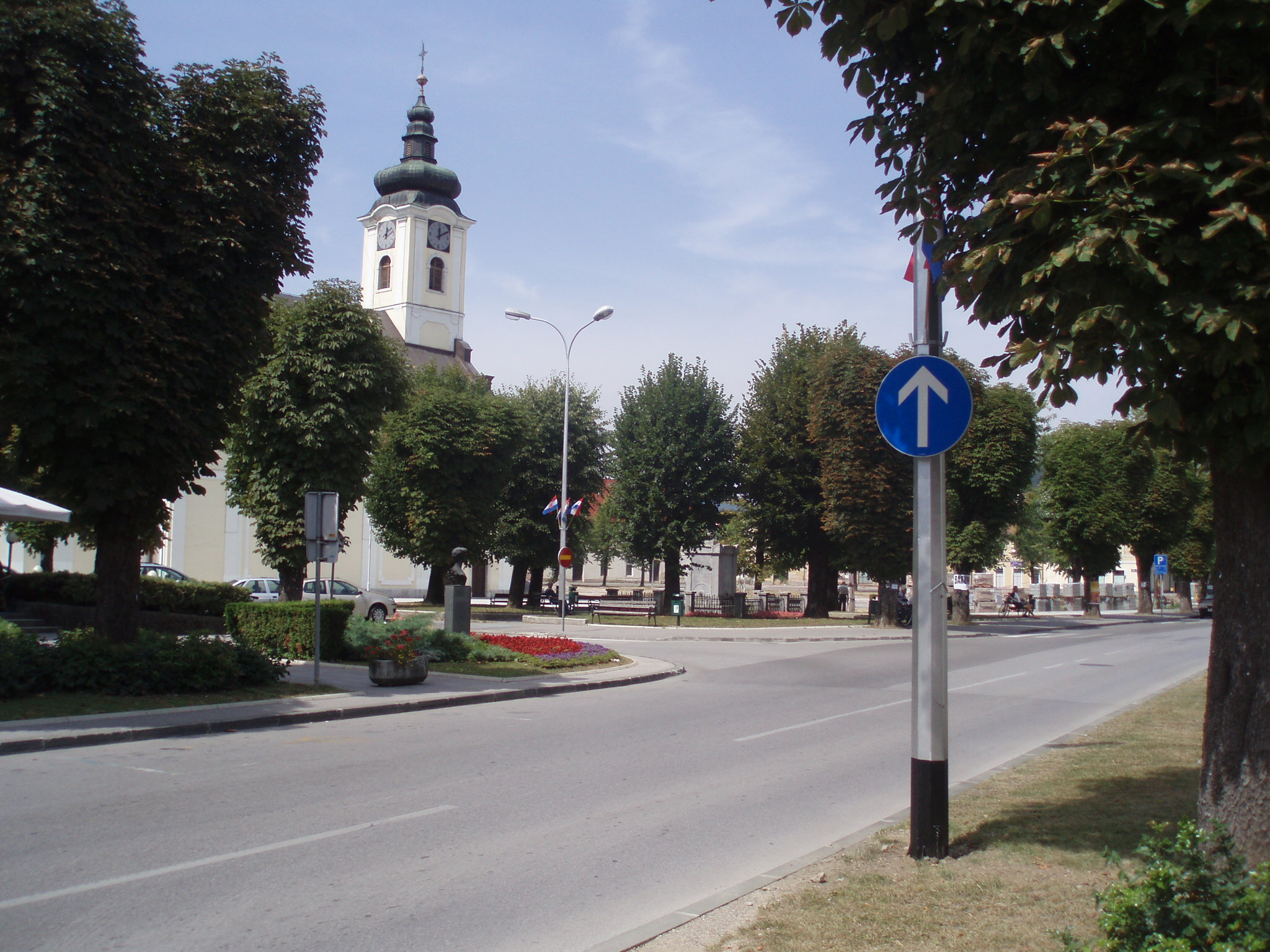 Catholic church of Saint Cross in the city of Ogulin.